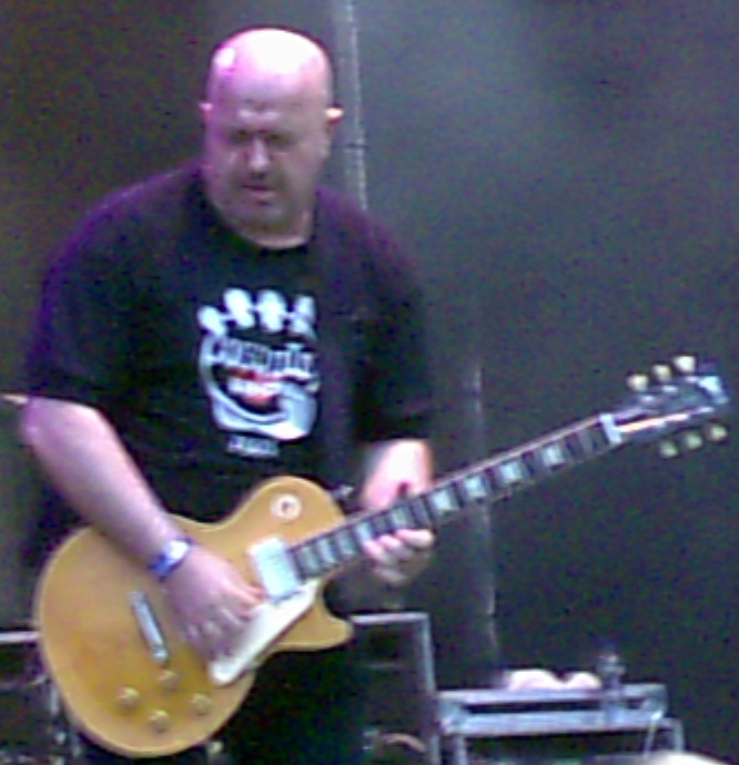 Carlos de Castro performing at Gernika's Metalway Festival 2006 (Spain) with his band Baron Rojo. Contact O_Menda if you want the original image or any other to improve it.